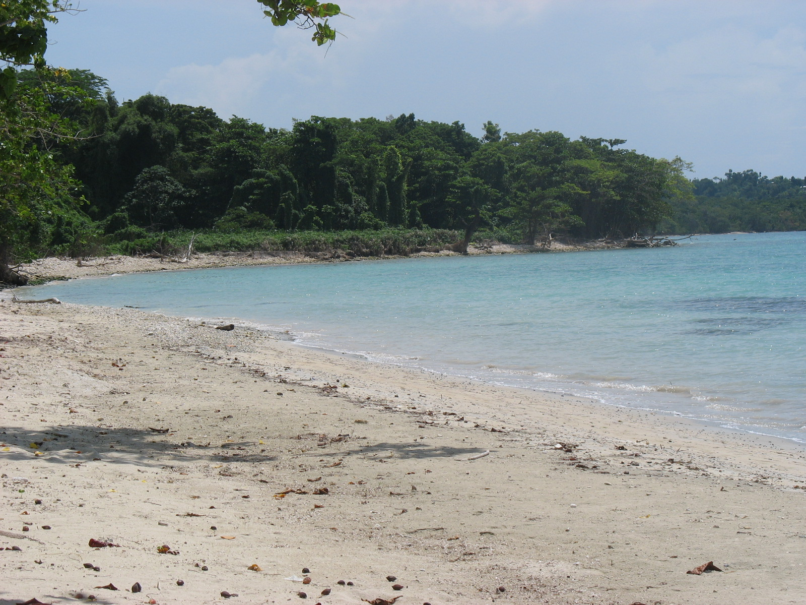 Bluefields is a beach on the south coast of Jamaica. This view looks east.